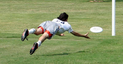 Source: Adam Ginsburg Pictures from an Ultimate Tournament in Dallas